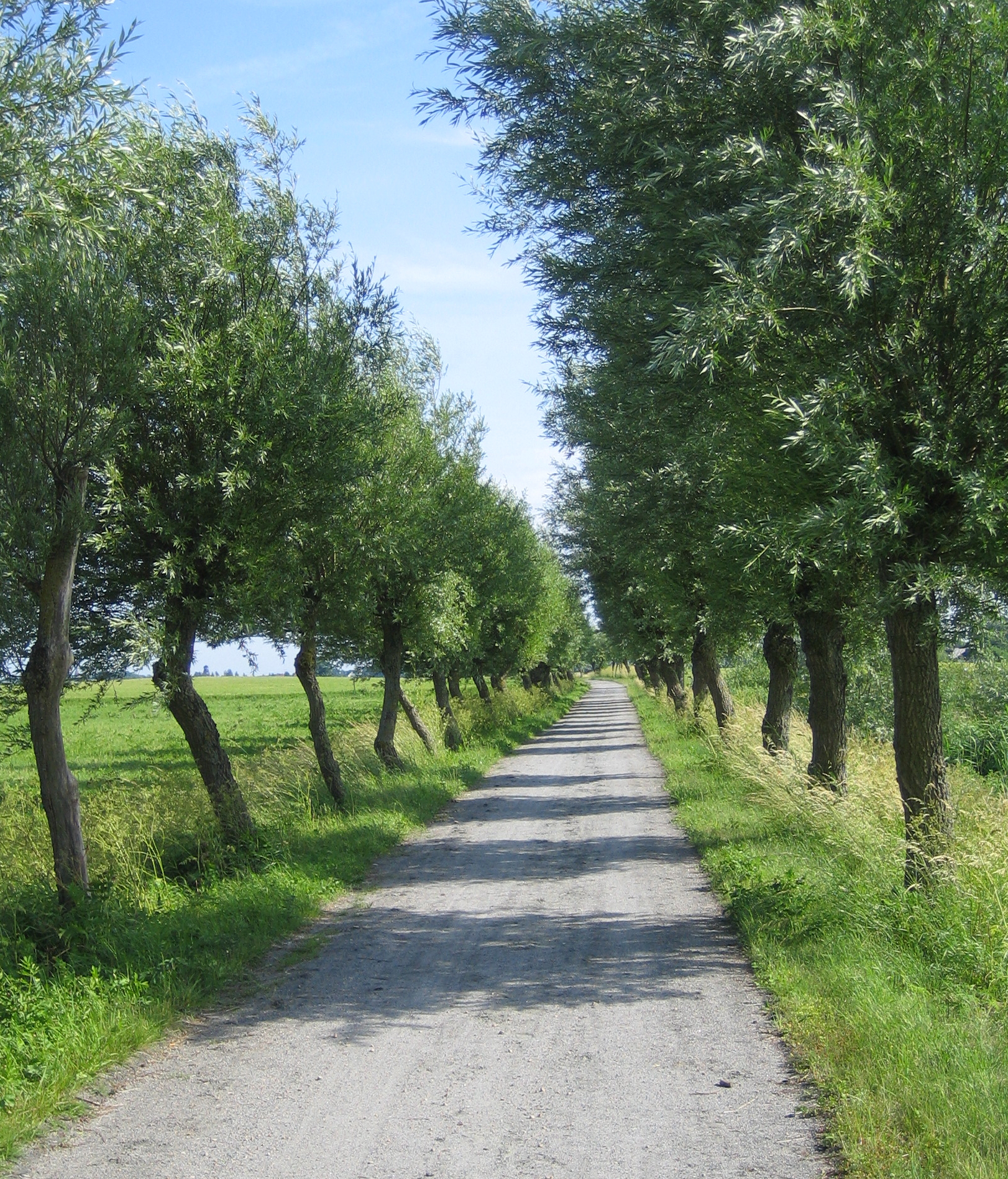 Willow lined bicycle road at Naffentorp, Malmö